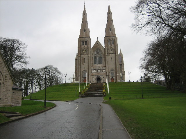 St Patrick's Cathedral, Armagh. The Roman Catholic Cathedral was consecrated on 24 July 1904.